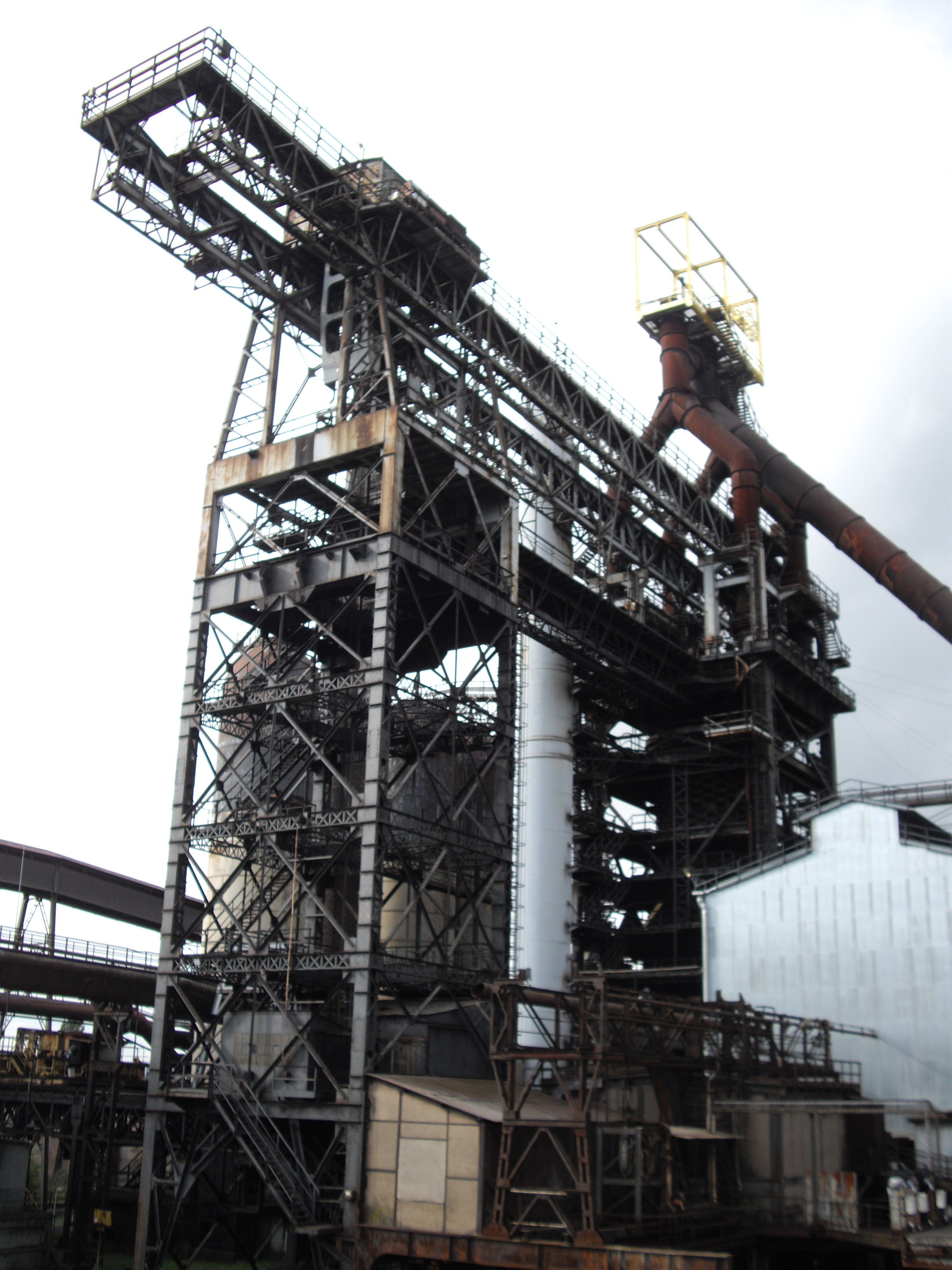 Inside the U4 blast furnace park, in Uckange, Moselle, France.